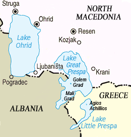 Map of the Ohrid and Prespa Lakes, between North Macedonia, Albania, and Greece.